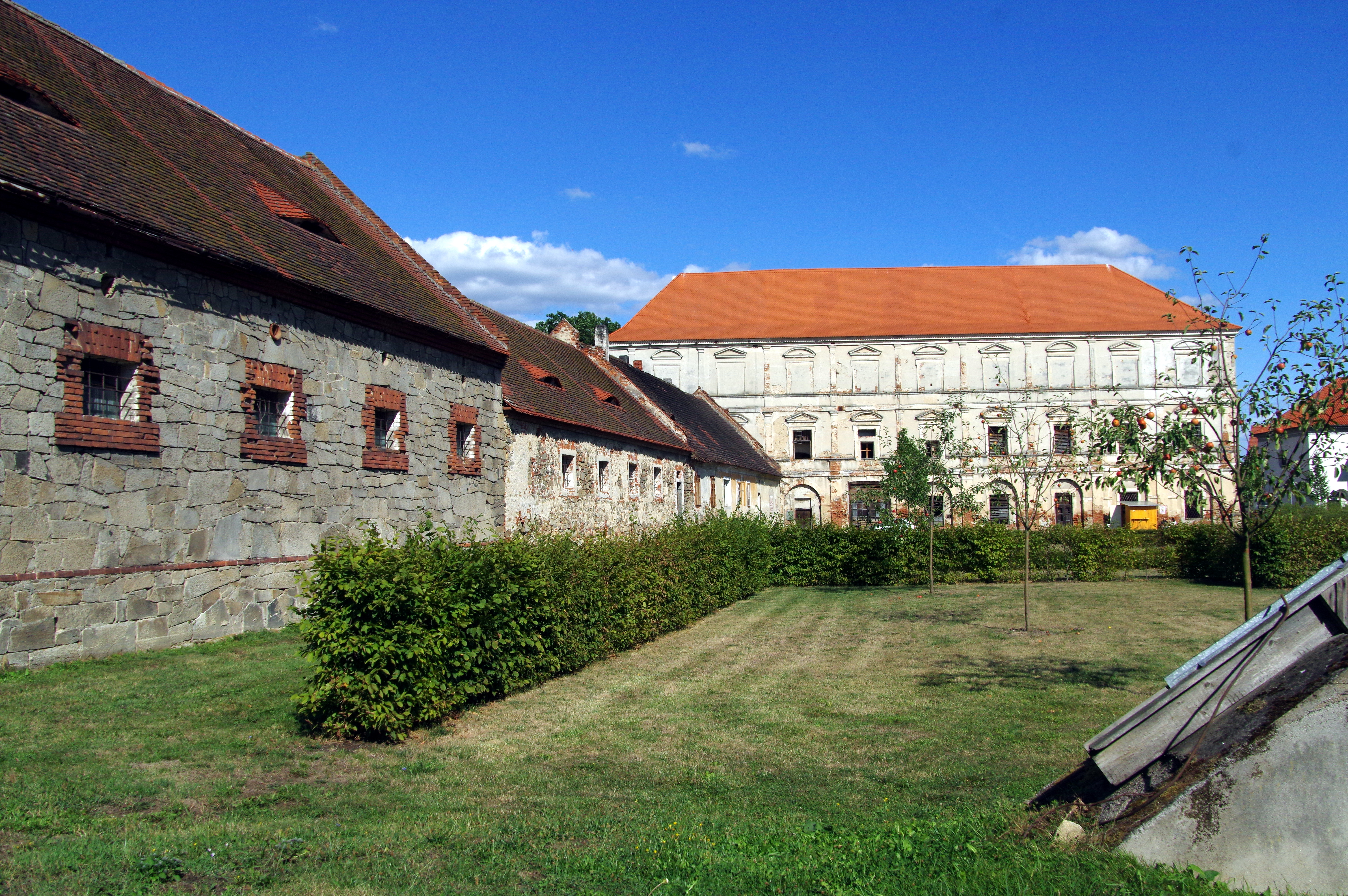 25.8.15 Lomec, Kestrany and Sudomer